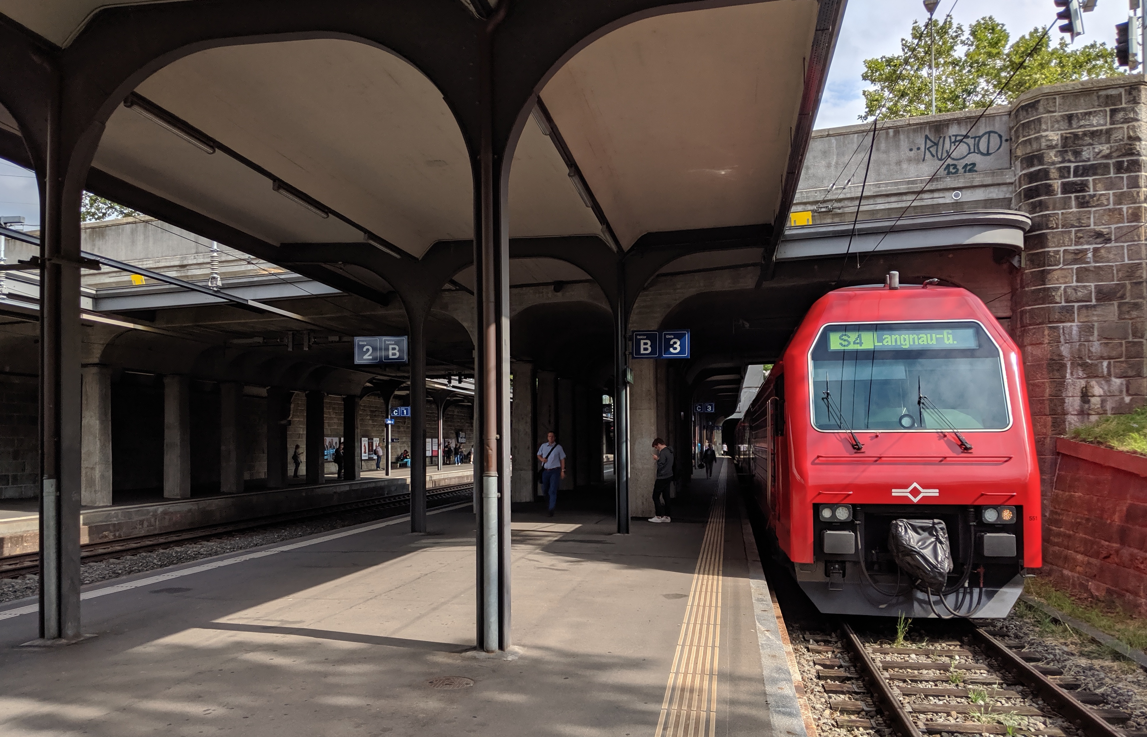 In Sommer 2019, due to construction work in the tunnel between Selnau and Zurich main station, some S4 trains exceptionally terminated in Zurich Wiedikon.